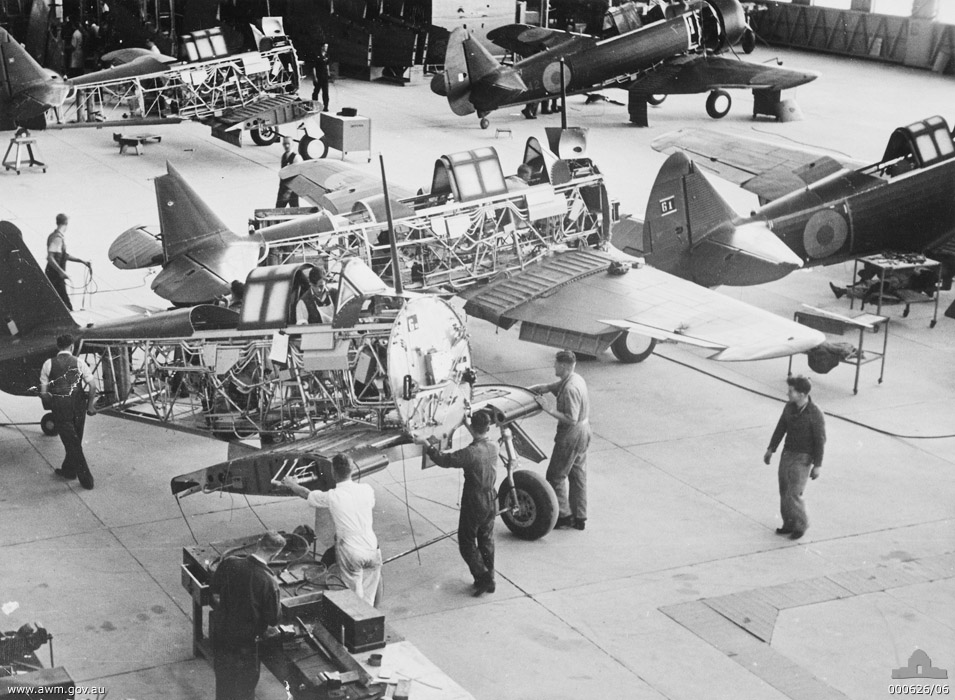 AWM Caption: Fishermen's Bend, Vic. 1940-02-02. At the Commonwealth Aircraft Corporation Factory, employees move a partly constructed Wirraway to a more advanced position in the assembly line.